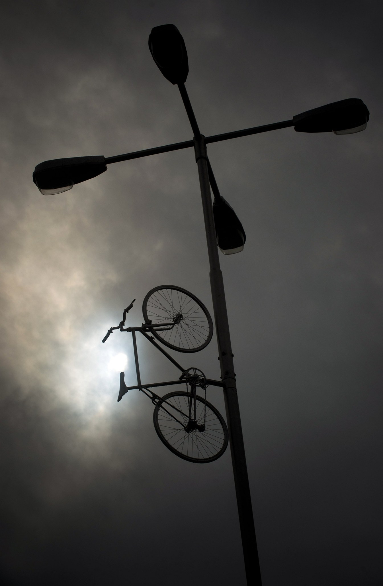 Bike to Heaven, a memorial of the activist Jan Bouchal. Author: Krištof Kintera, place: Kapitána Jaroše Embankment, Holešovice, Prague, the Czech Republic.